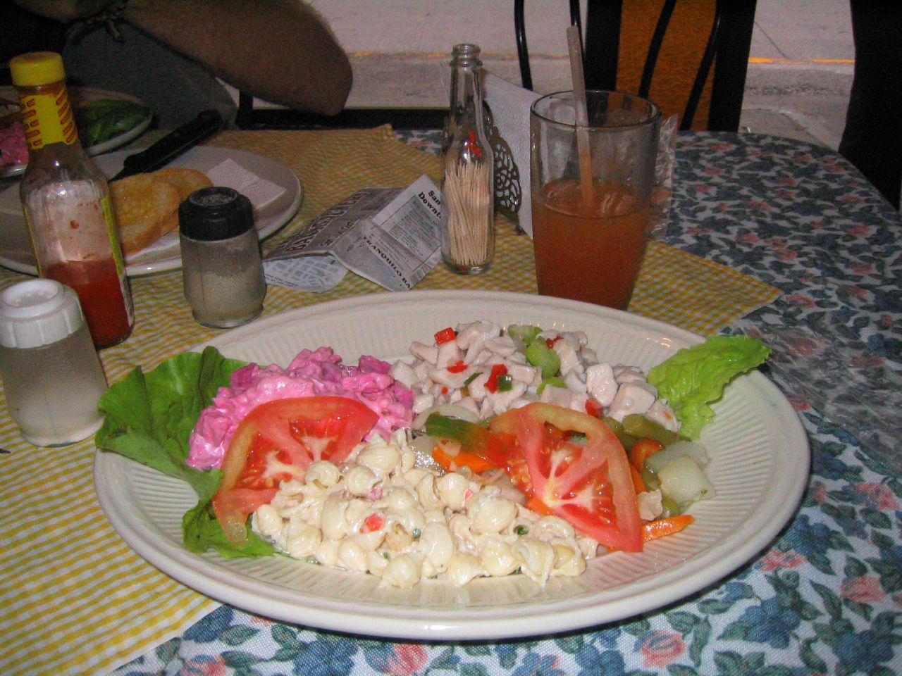 Ceviche